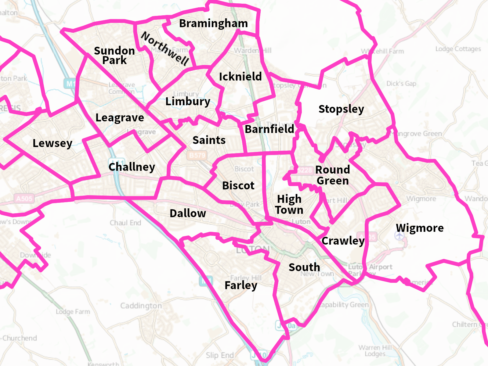 Map of Luton, Bedfordshire, England. Divided into its 19 wards, with their names labelled. Based on Ordnance Survey election data.